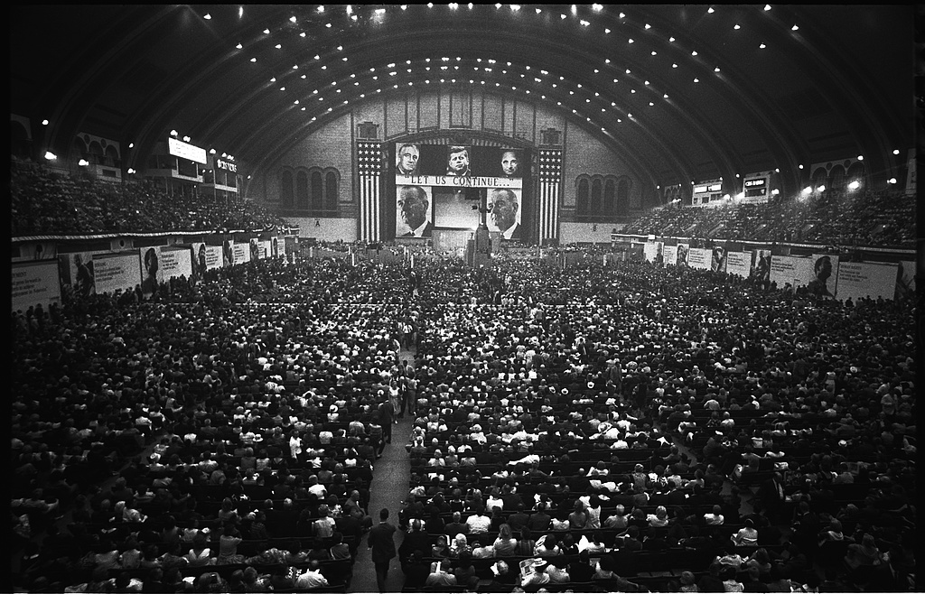 Aerial view of delegates and the stage with large pictures of John F. Kennedy, Harry Truman, Franklin D. Roosevelt, and Lyndon B. Johnson and the slogan "Let us continue...", at the 1964 Democratic National Convention, Atlantic City, New Jersey